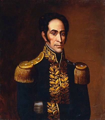 Simón Bolívar by Antonio Salas.